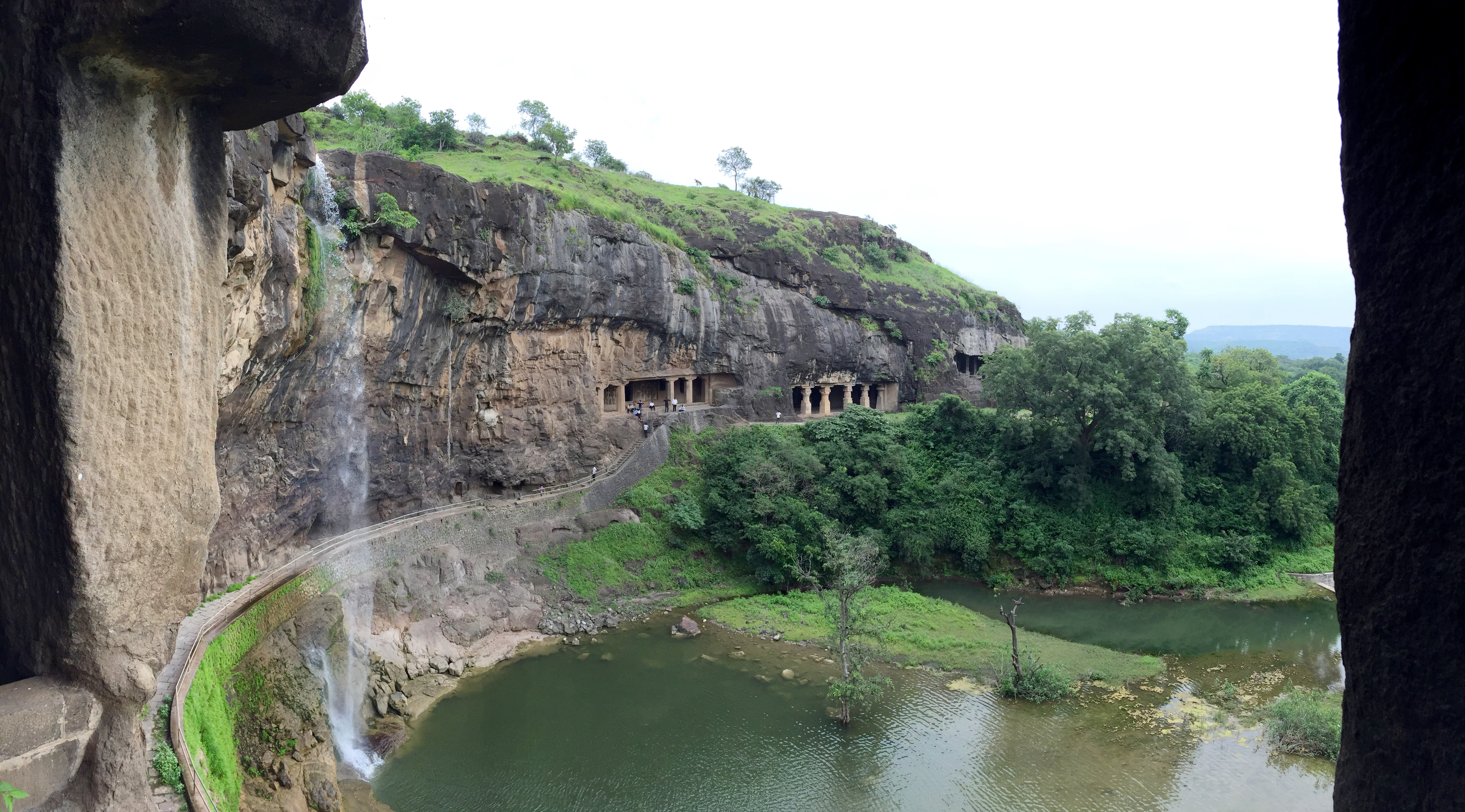 Ellora caves, Hindu Hinduism